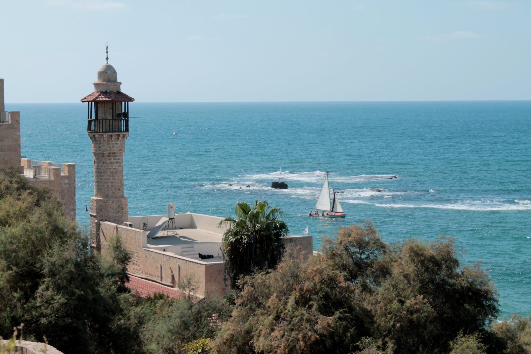 coast of Tel Aviv-Yaffo